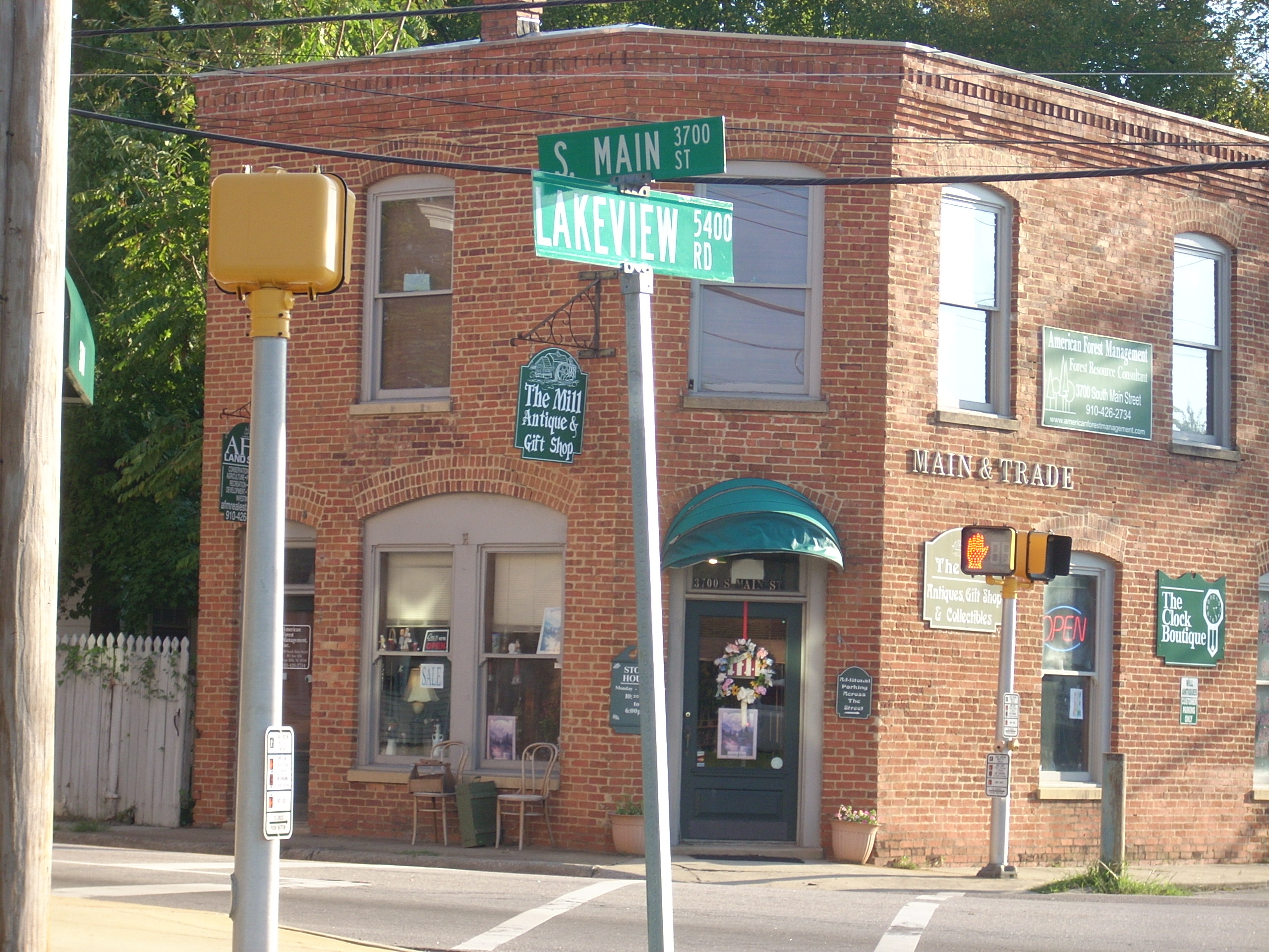 The Mill Antiques is at the corner of South Main Street and Lakeview Road in Hope Mills, NC. It is part of the Hope Mills Historic District. This building was once part of the offices for the cottons mills in Hope Mills.